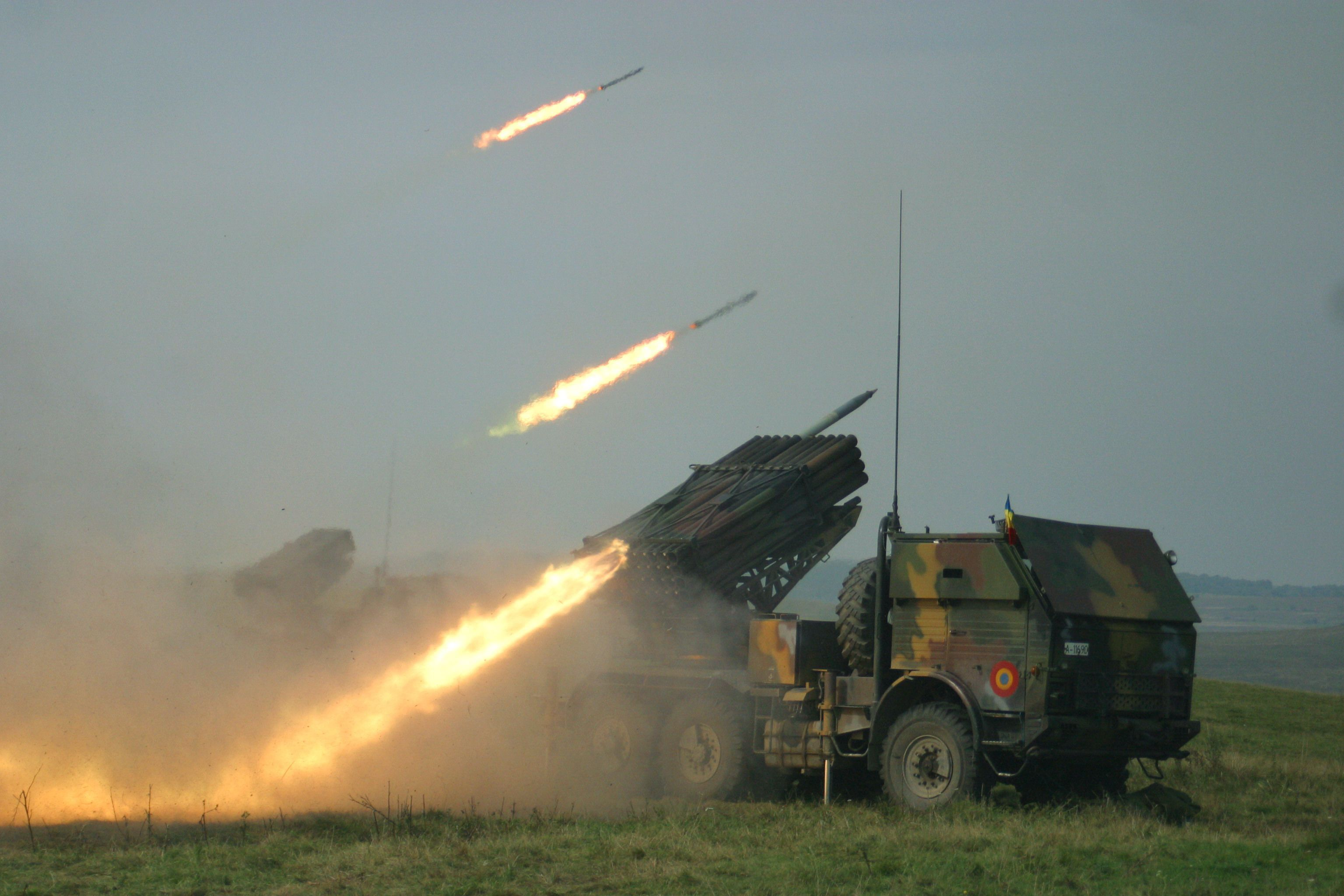 LAROM (Romanian improved version of the BM-21 rocket launcher) firing a salvo.